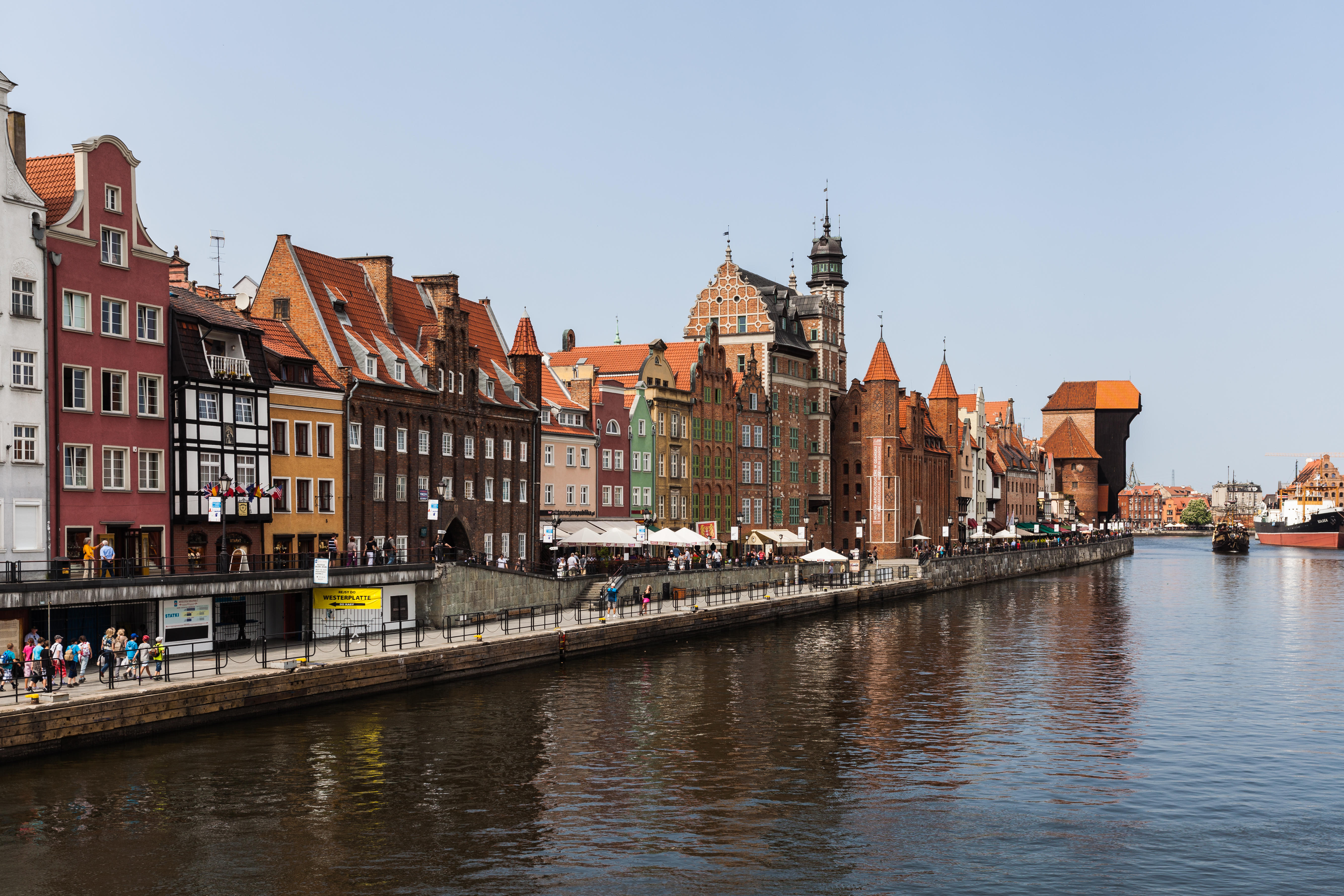 Dlugie Pobrzeze St., Gdansk, Poland